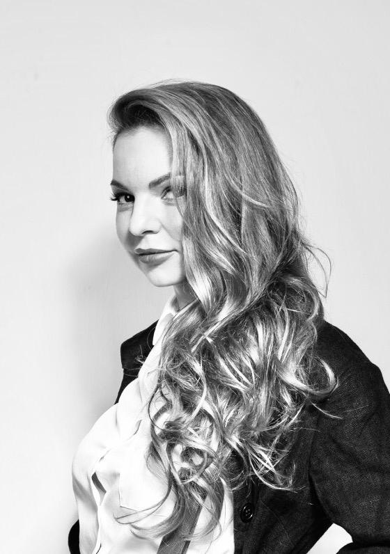 Olga Kondratska